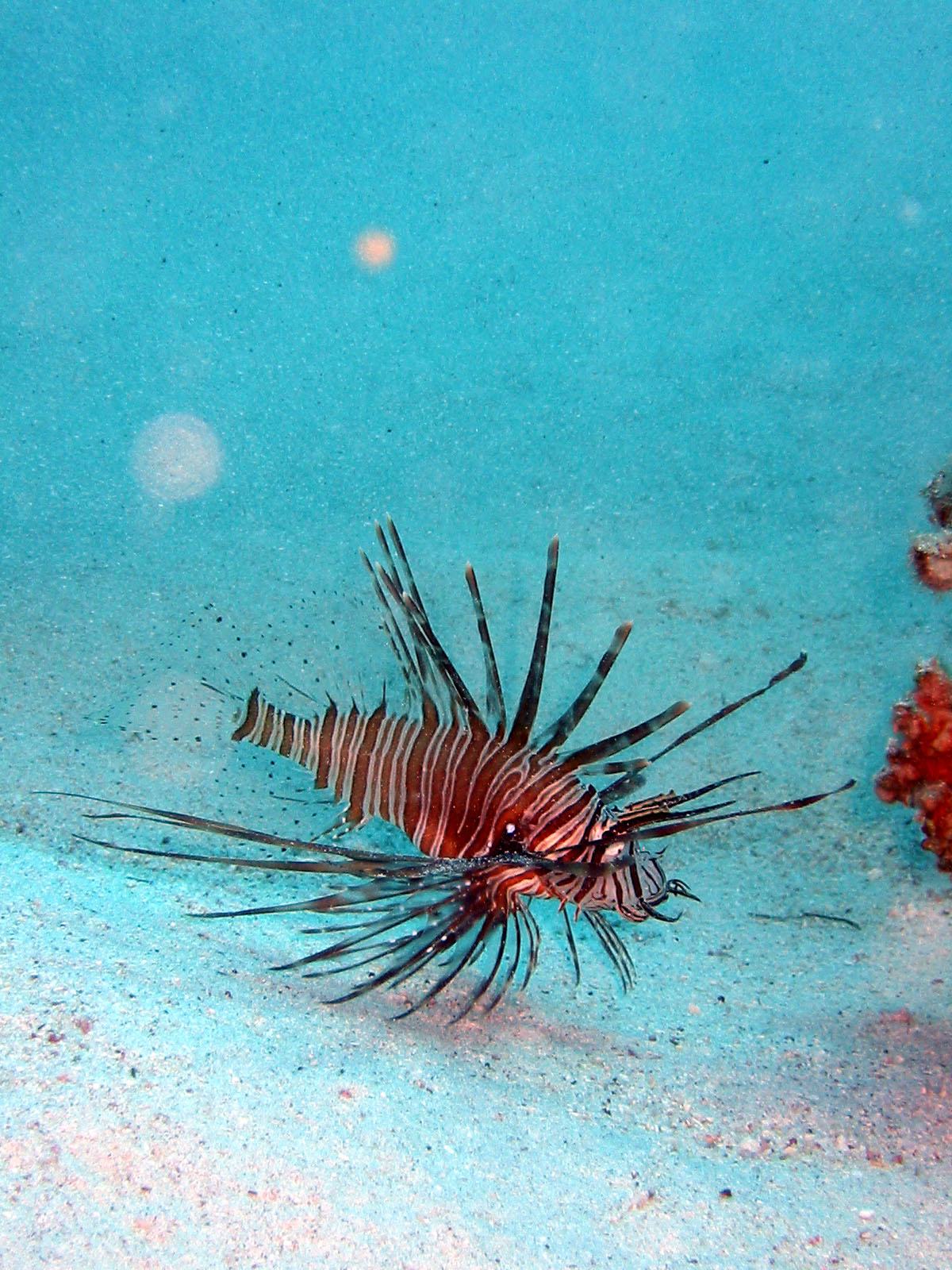 dahab red sea pterois miles lionfish - file mis-named